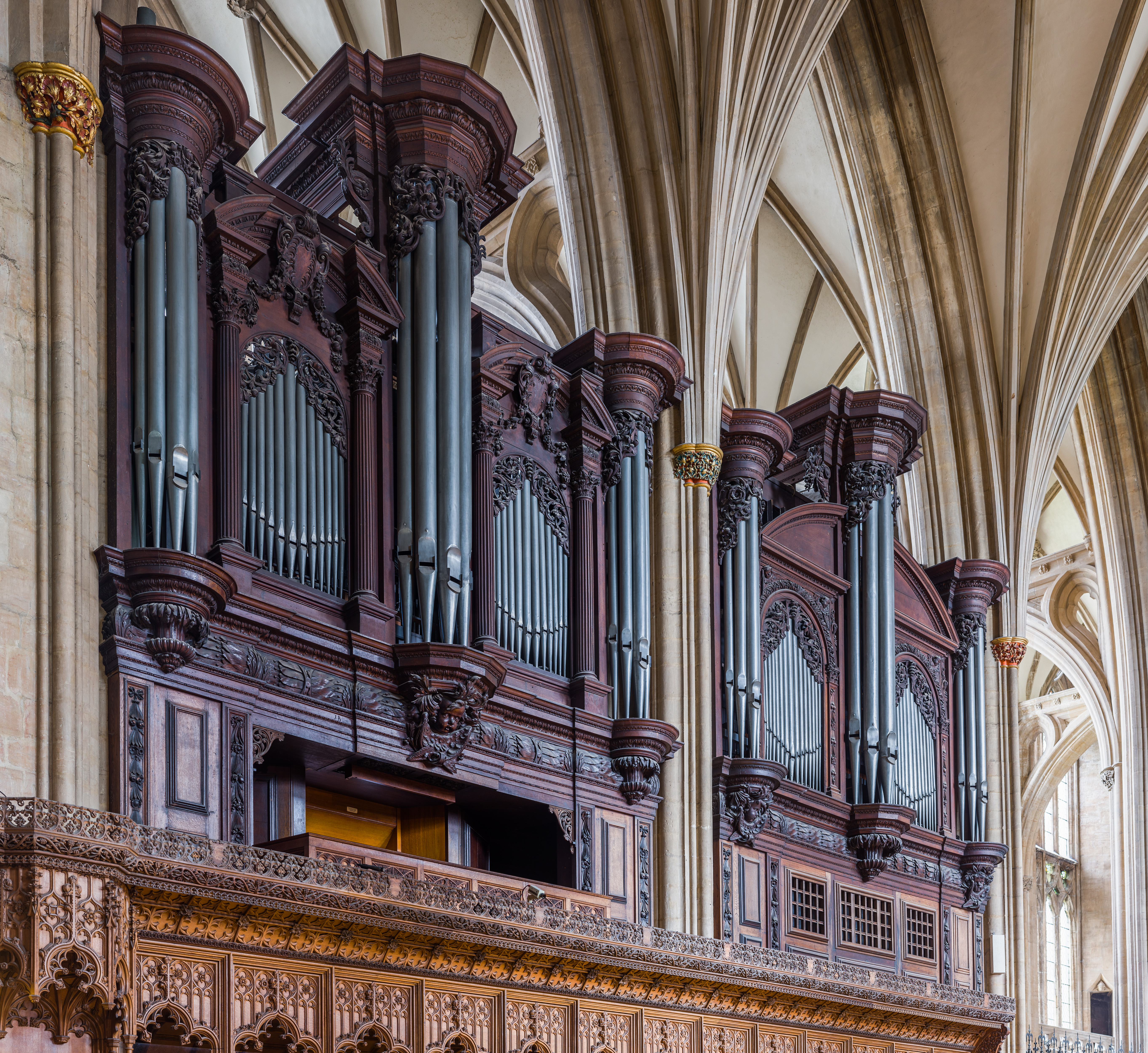 The organ of Bristol Cathedral in Bristol, England.